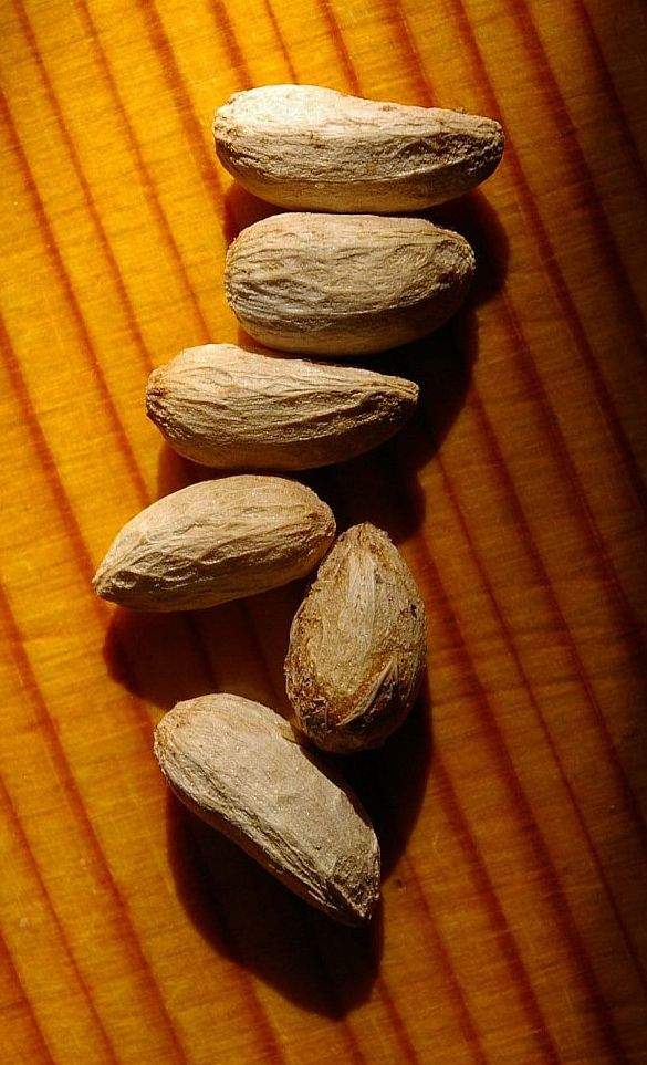 Neem tree (Azadirachta indica) seeds, length about 12 mm